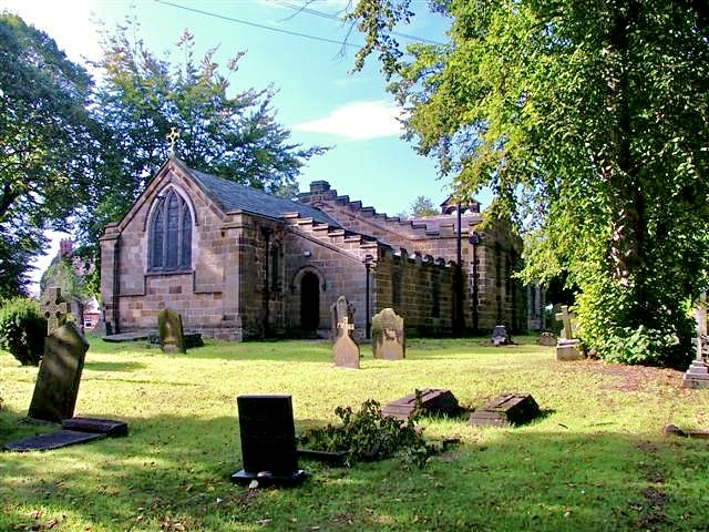 St. Cuthbert's Church, Marton. Capt. James Cook RN was christened in this church.